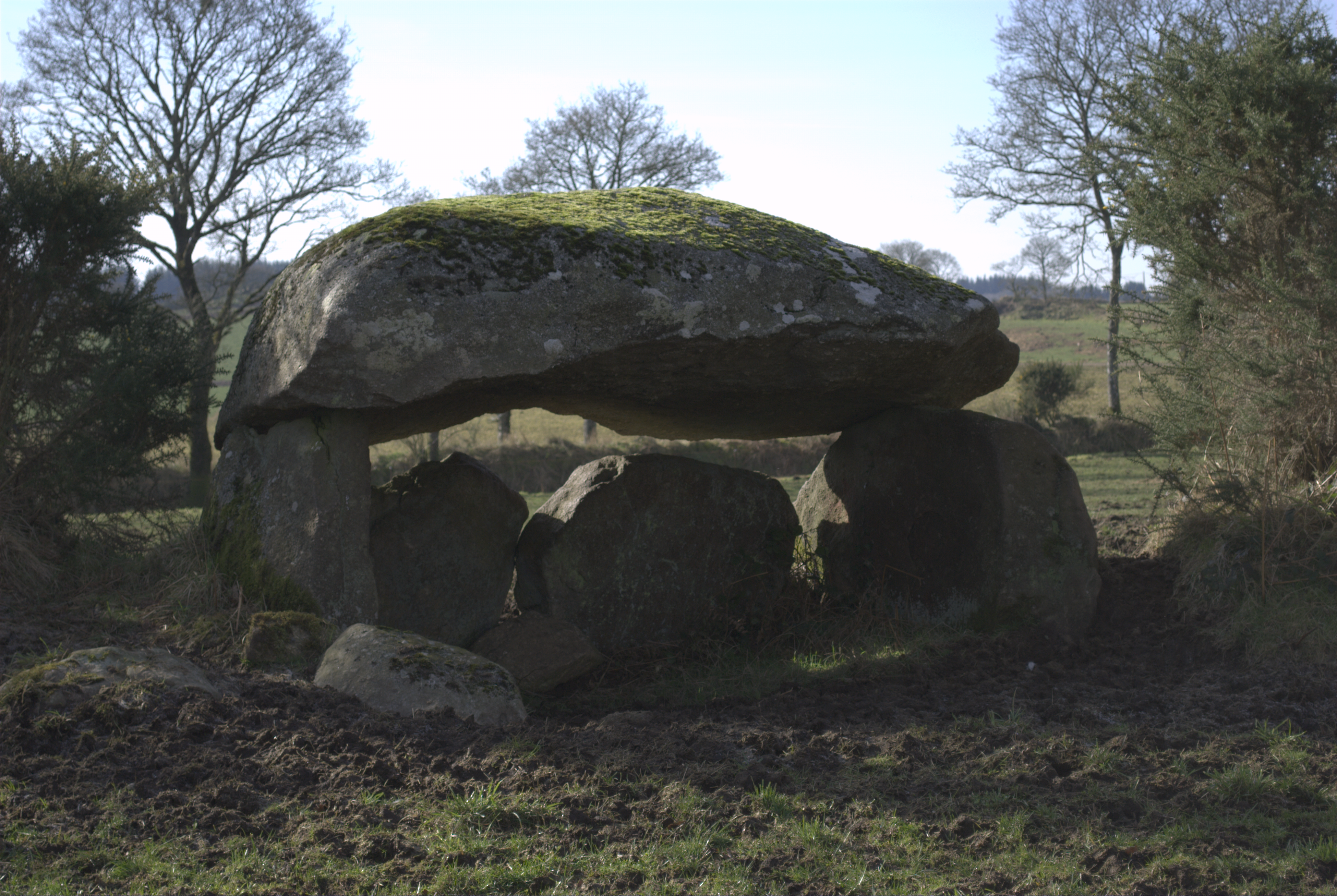 Roc'h Toul Dolmen in the village of Maël-Pestivien (France).